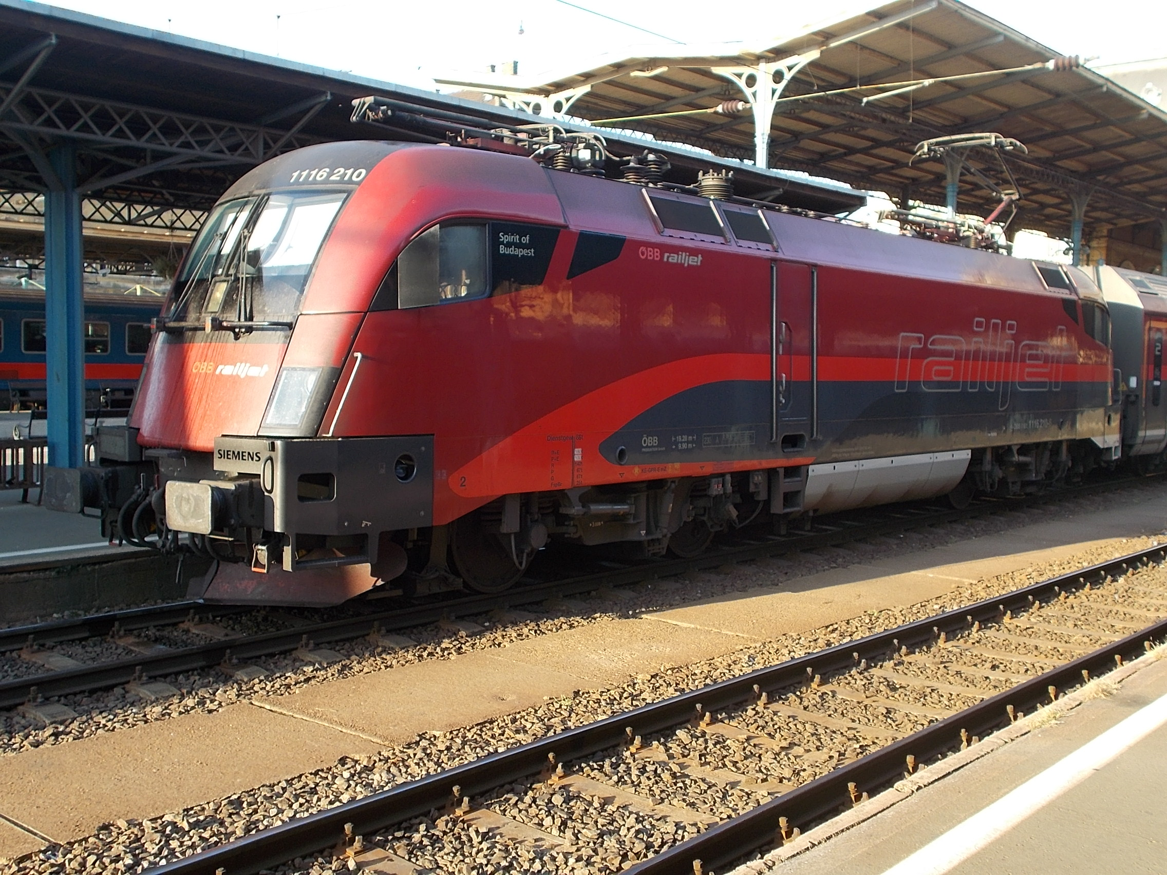 ÖBB Railjet. ÖBB 1116 210 'Spirit of Budapest'. Eastern Railway Station, Budapest.